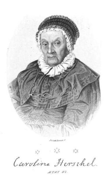 Picture of Caroline Herschel, the noted astronomer, at age 92. The original had been a lithography (1848 and earlier) by George Müller, lithographer and photographer in Hanover.